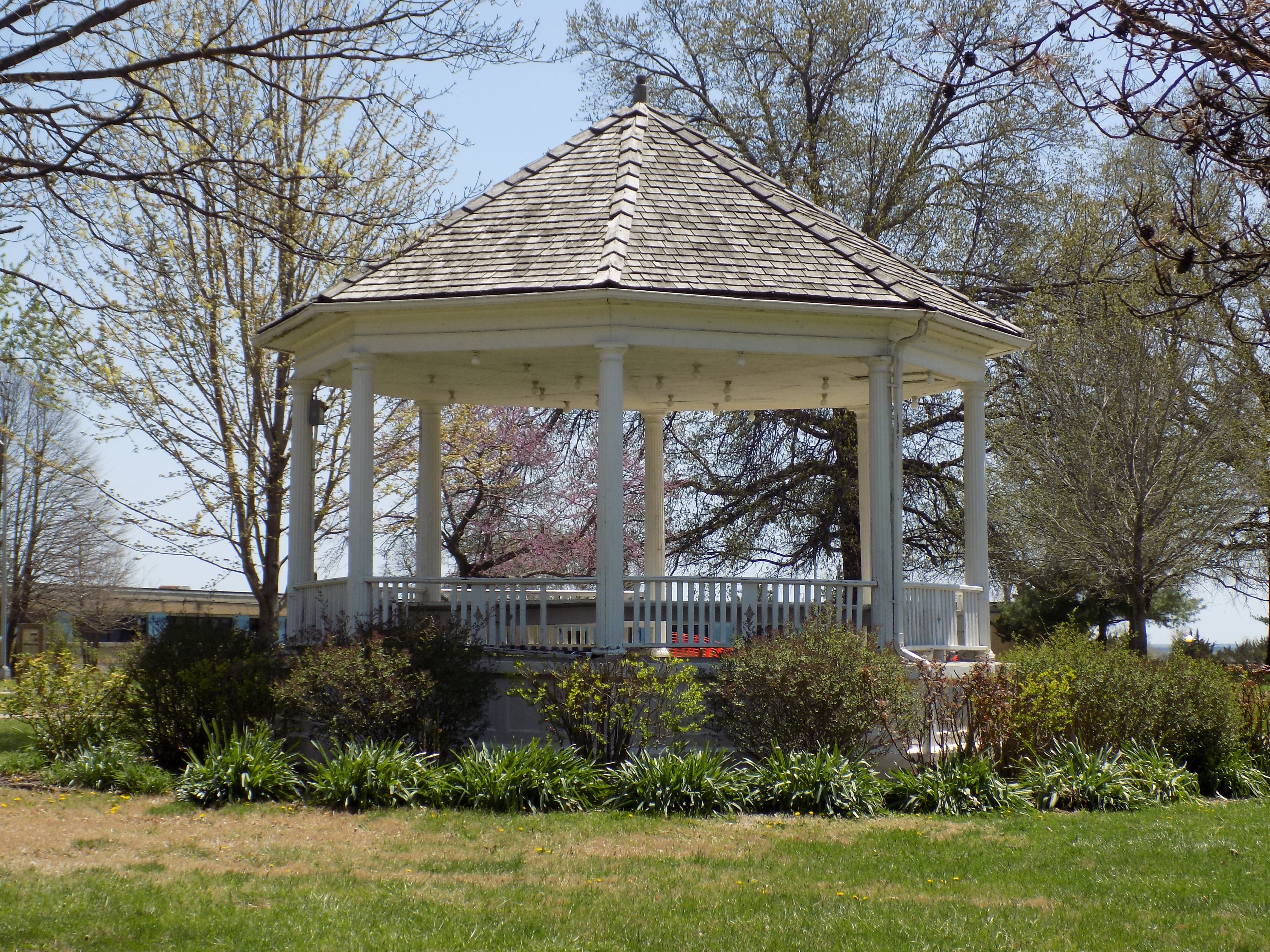 A small gazebo on the Haskell Indian Nations University. It was constructed in 1908 and is on the National Register of Historic Places.